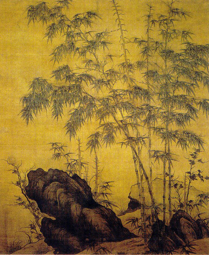 Bamboos and RocksHanging scroll, ink on silk. Size 185.5 x 153.7 cm (height x width). Painting is located at the Palace Museum, Beijing (see Barnhart, R. M. et al. (1997). Three Thousand Years of Chinese Painting. New Haven, Yale University Press. ISBN 0-300-07013-6. Page 187)